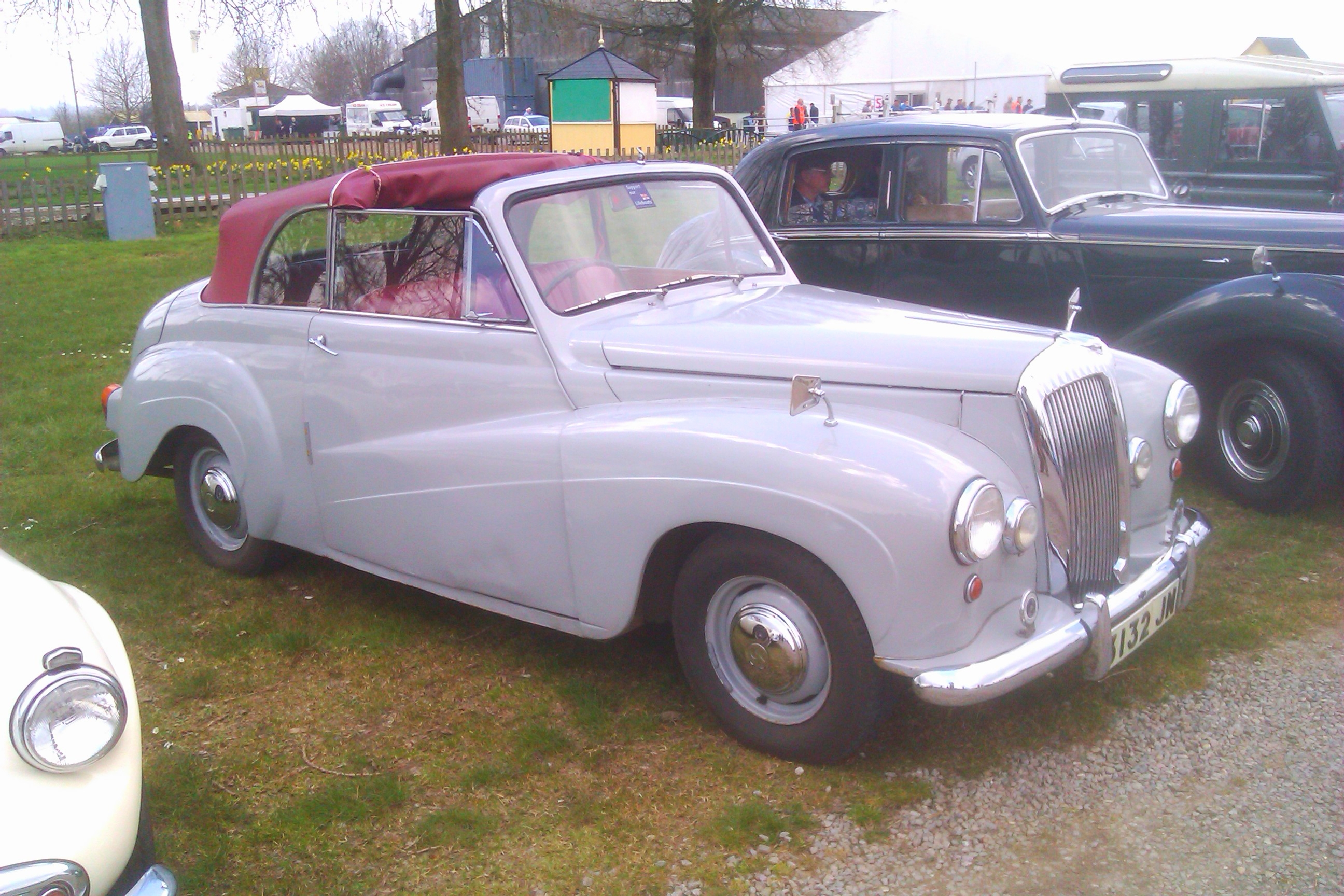 1955 Daimler Conquest Drophead Coupé 2433cc Footman James Bristol Classic Car Show 20th April 2013